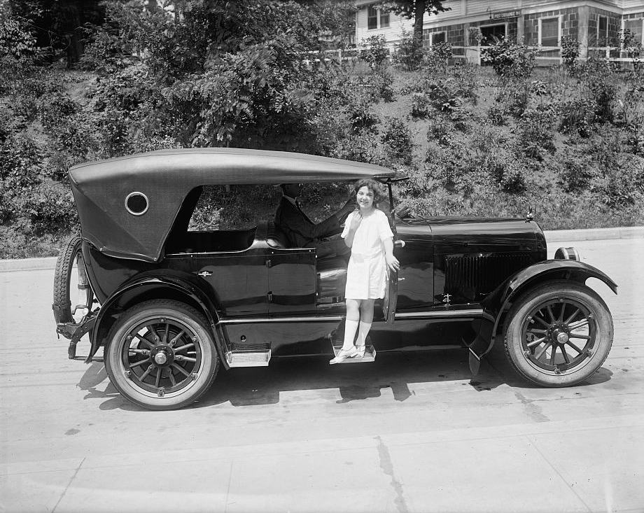 Meriam Battista